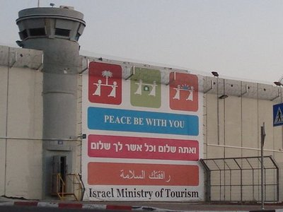 Israeli signage on separation wall in Occupied Palestinian Territories.